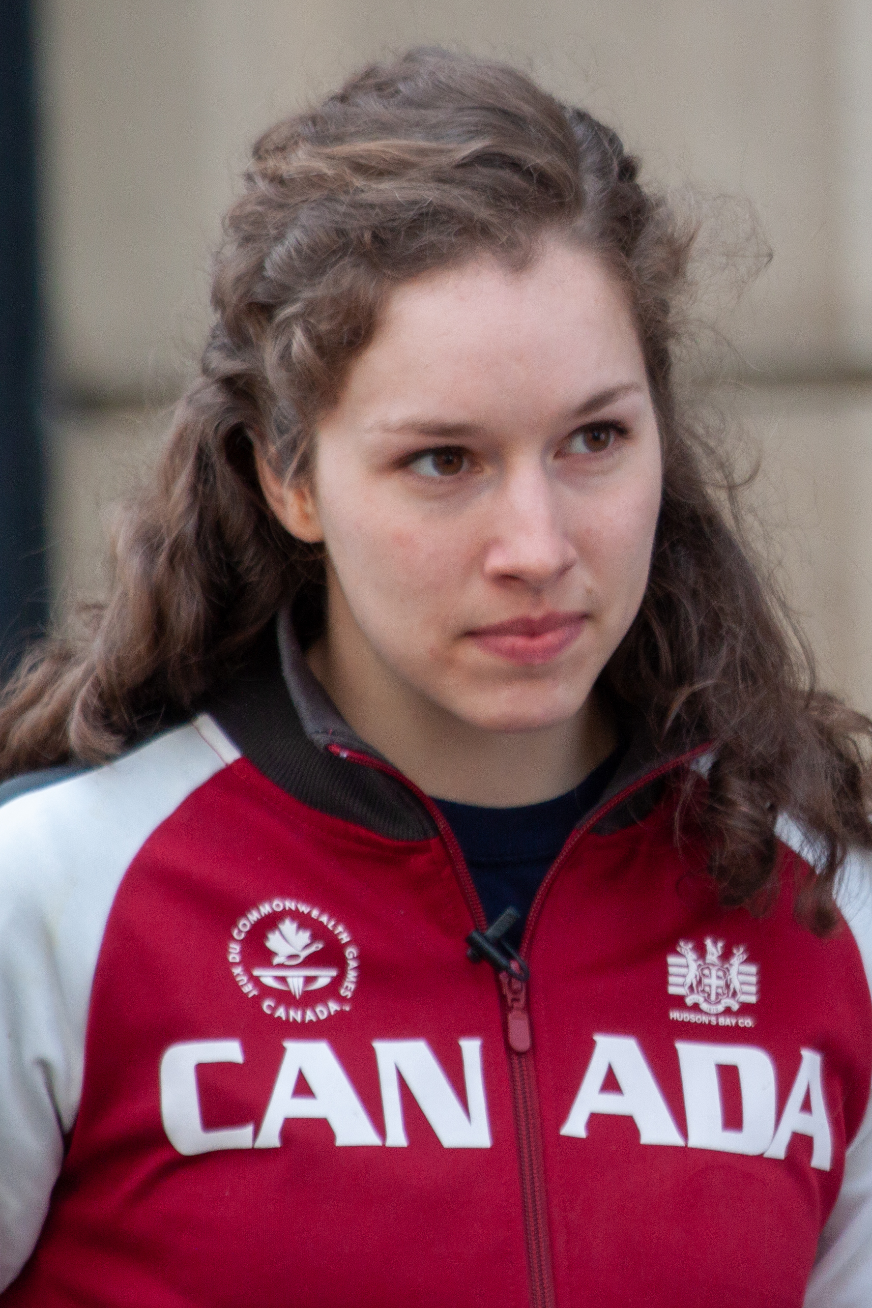 Monique Sullivan, a Canadian cyclist, is seen here on Stephen Avenue Mall in Calgary, Alberta on April 16, 2012. Image has been cropped and despotted.